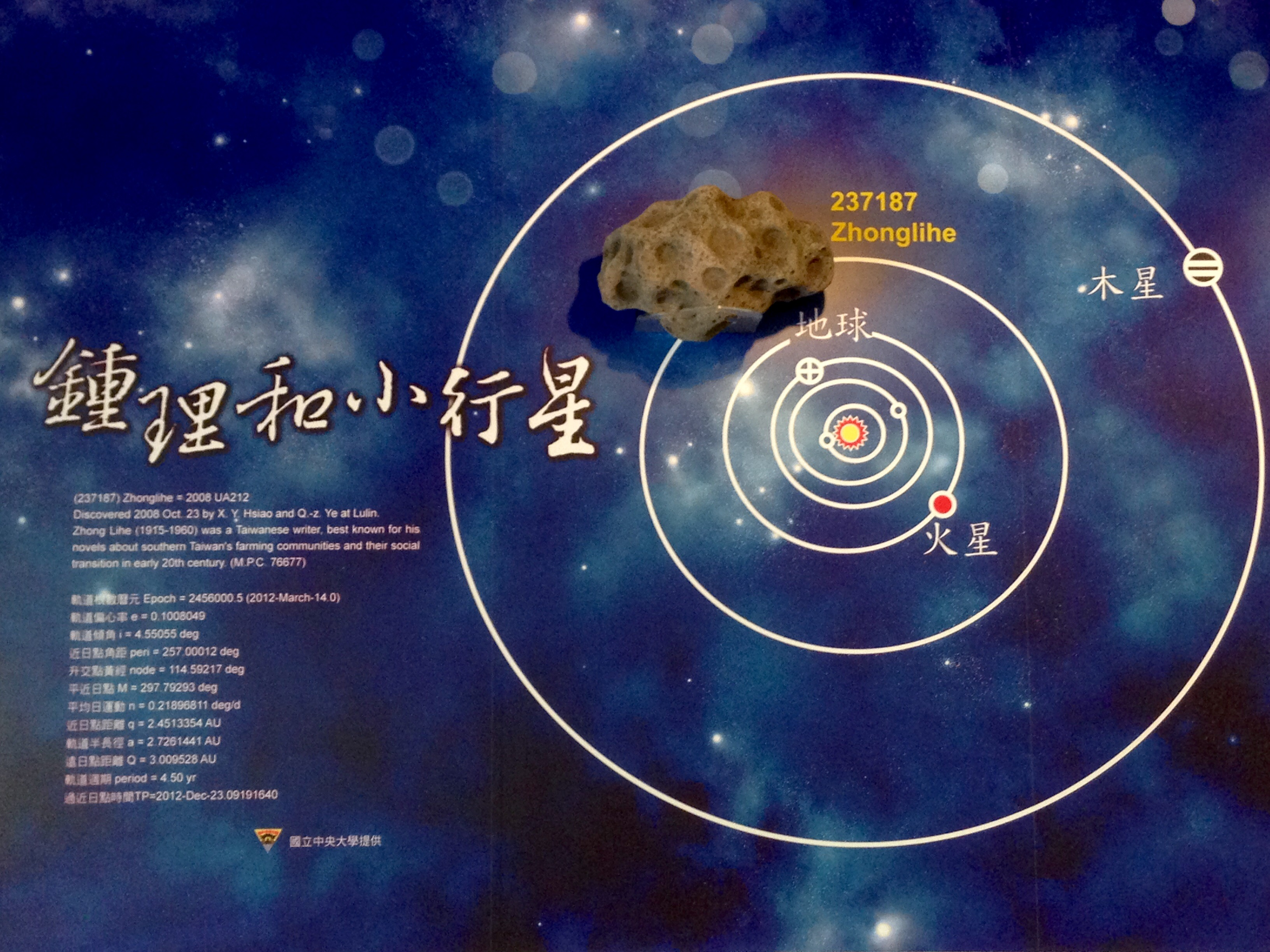 237187 Zhonglihe